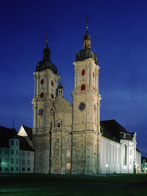 copyright Staatsarchiv St. Gallen